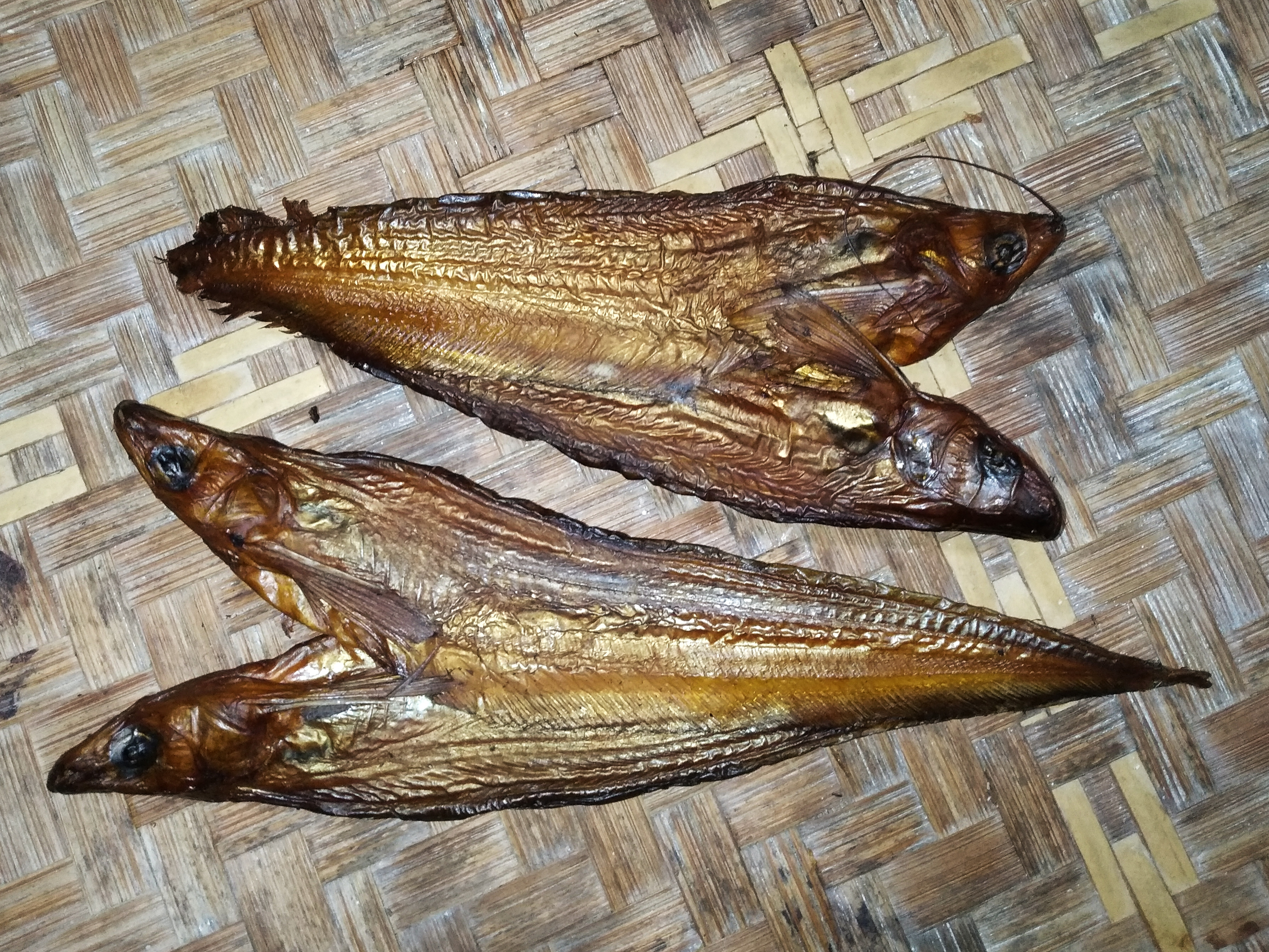 Ikan salai (smoked fish) consist of lais species (genera Kryptopterus, and other member of Siluridae), buy from Jakabaring market of Palembang, South Sumatra, Indonesia.